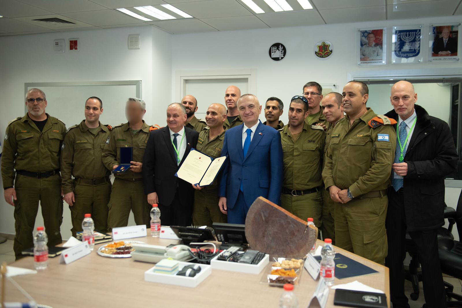 Albanian Republic President Ilir Meta's visit to the Homefront Command of Israel.